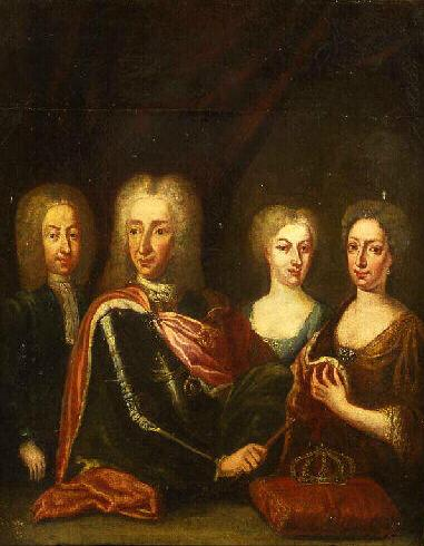 Victor Amadeus II and his family